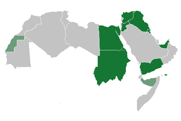 Map of Arab States using Pan-Arab Colors in their flags